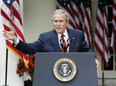 George W. Bush at a lectern, 15 September 2006